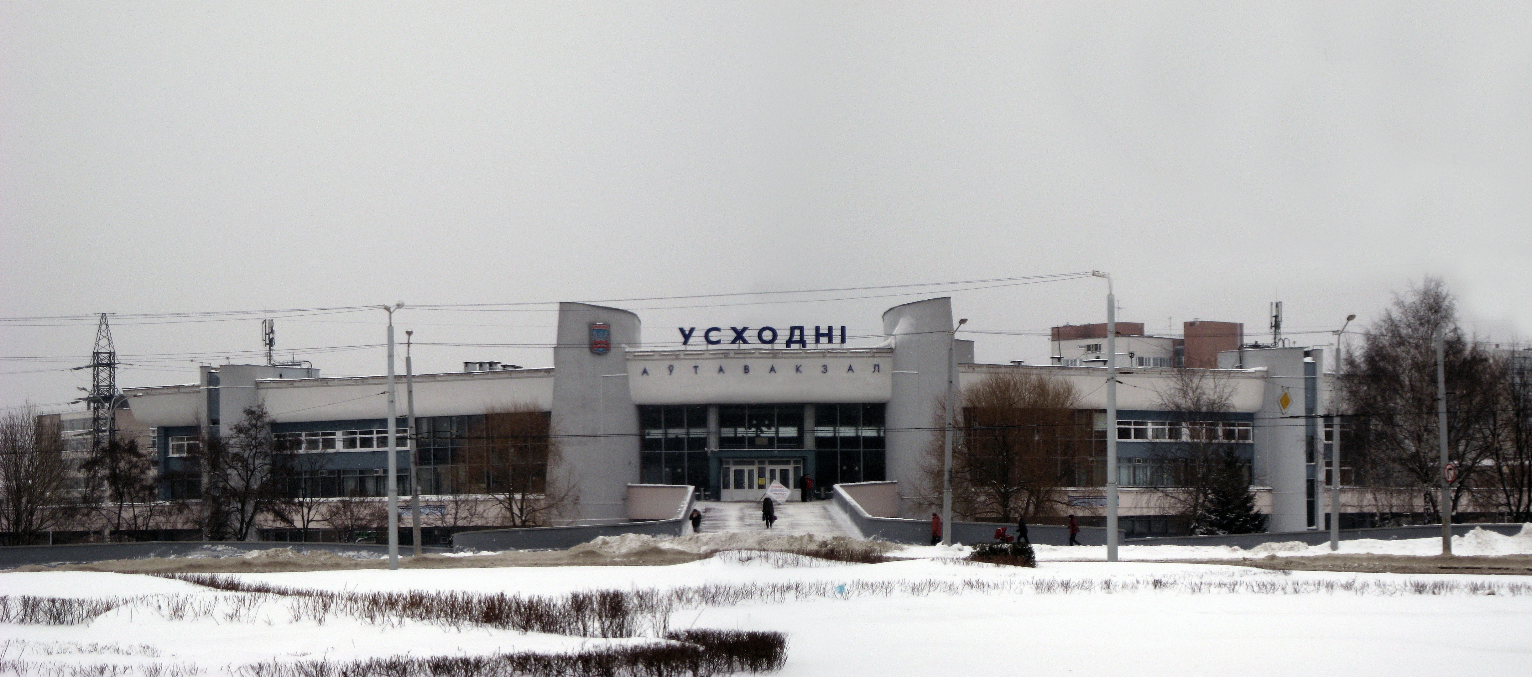 "Uschodni" bus station in Minsk. Беларуская (тарашкевіца): Аўтавакзал "Усходні"